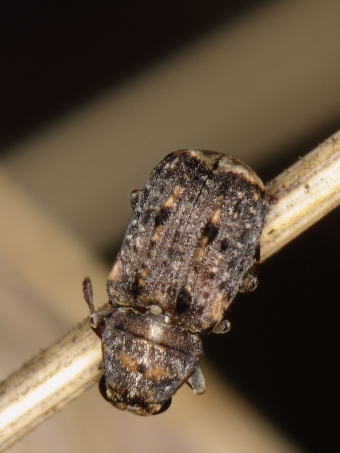 Dissoleucas niveirostris at Germany, S-Brandenburg, Krausnicker hills/Spreewald: vic. Wehlaberg (old pine forest), 80m asl